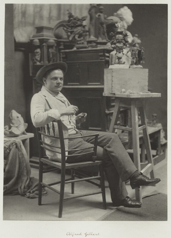 Sir Alfred Gilbert by Ralph Winwood Robinson, published by C. Whittingham & Co / platinum print, circa 1889, published 1892 / 8 in. x 6 in. (202 mm x 153 mm) image size / Given by Royal Academy of Arts: London: UK, 1969 / Photographs Collection NPG x7365 / Place made and portrayed: sitter's studio, The Avenue, Fulham Road, London